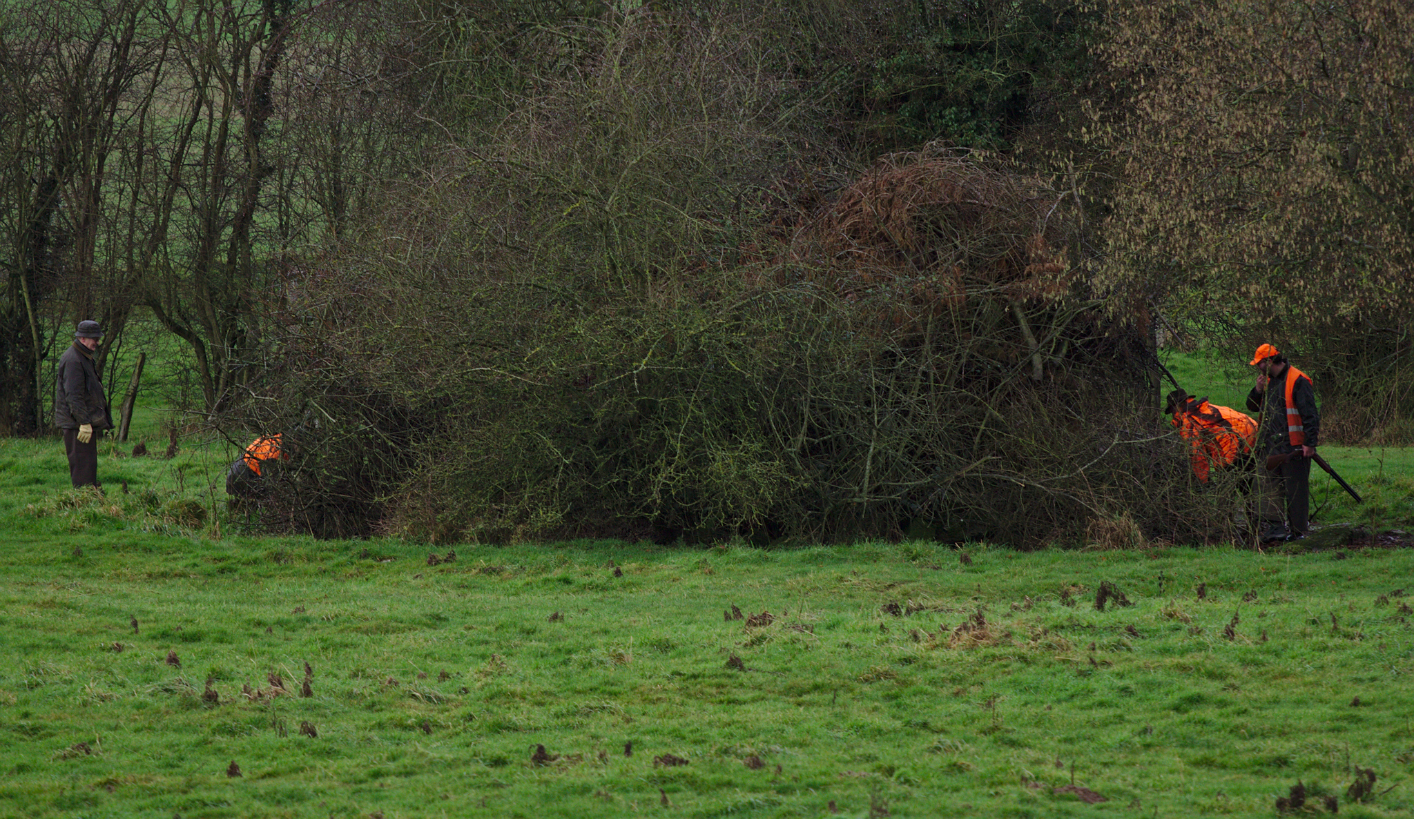 French hunters comb through a thicket during a driven hunt in France.